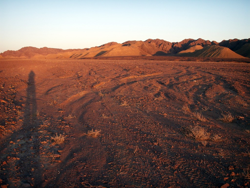 Desert near Port Safaga / Al-Qusair / Egypt / Red Sea.